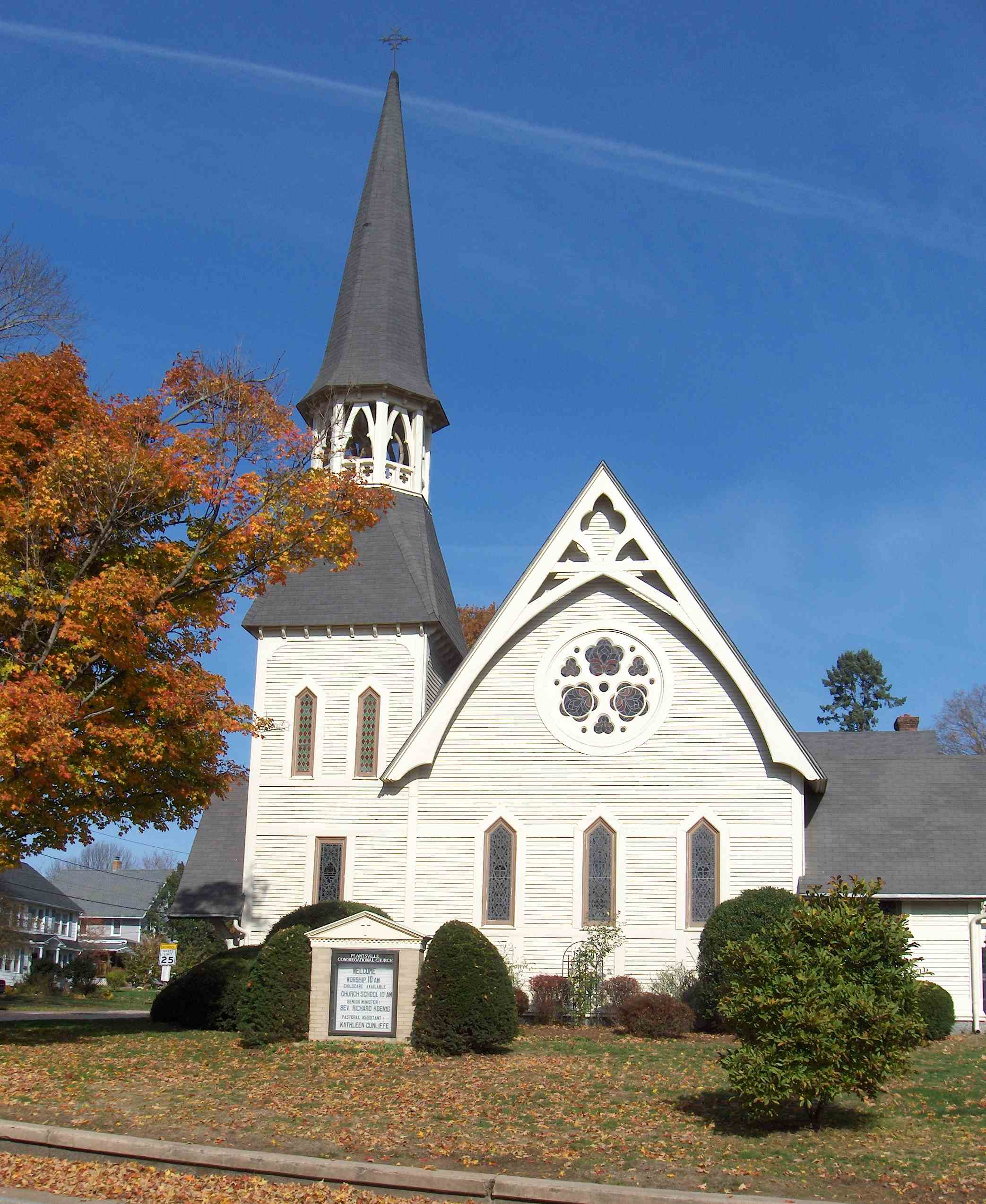 Plantsville Congregational Church, at 99 Church street in the Plantsville section of Southington, CT USA. A Gothic Revival style building, built in 1866